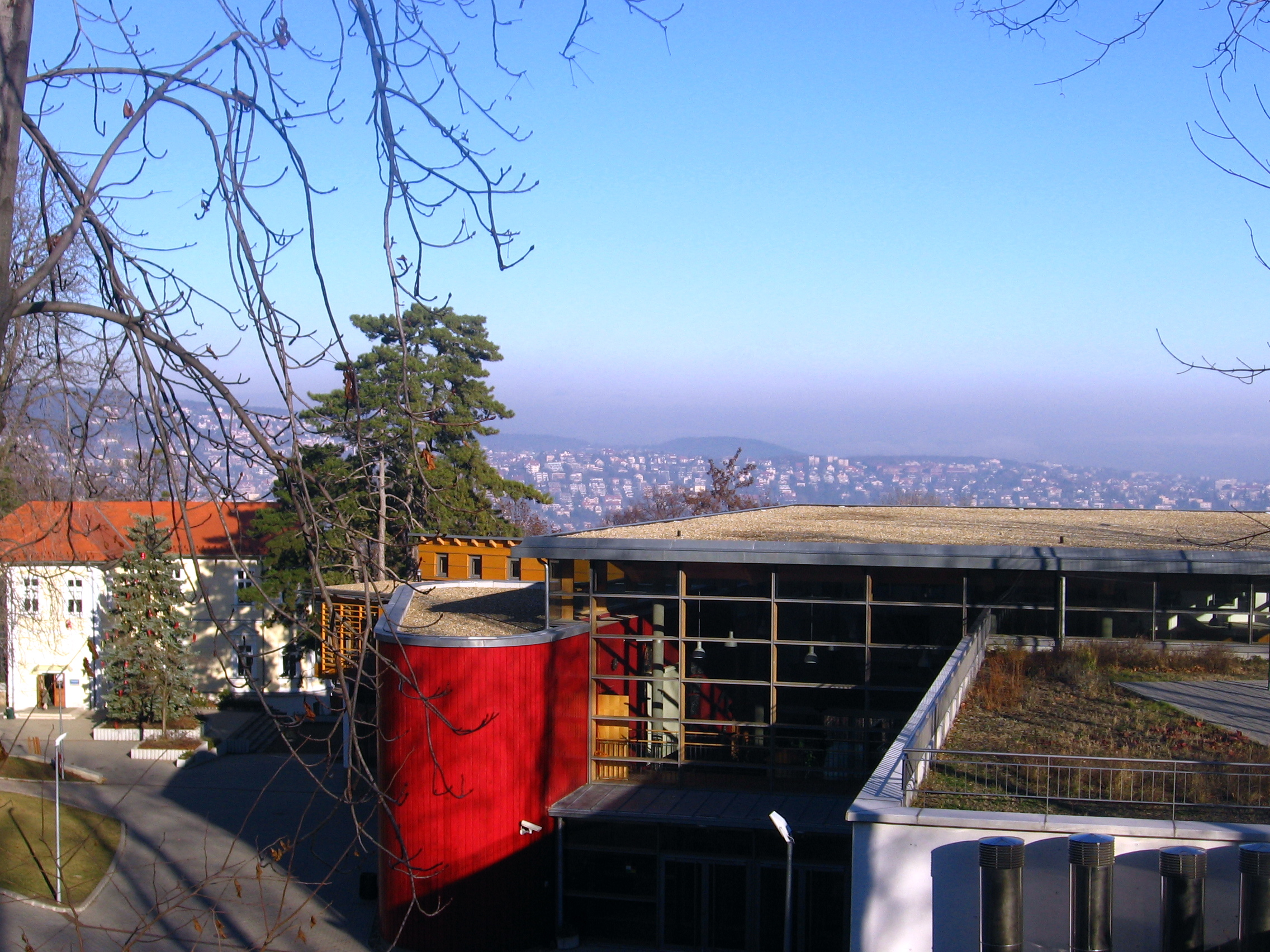 Thomas Mann Gymnasium - view towards North Budapest / Buda hills. The red building in the foreground houses the library. Budapesti Német Iskola. - Budapest, Cinege út 8/c